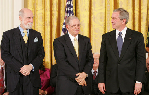 United States President George W. Bush (right) stands with Presidential Medal of Freedom recipients, Vinton G. Cerf (left) and Robert E. Kahn (middle), Wednesday, Nov. 9, 2005, during ceremonies at the White House. Cerf and Kahn were honored for their work in helping to create the modern Internet. The medal citation read: More than 30 years ago, Vinton Cerf and Robert Kahn designed the architecture and communication protocol that gave rise to the modern Internet. The innovative work of these two pioneers laid the foundation for a global transformation of communication, commerce, and entertainment. The United States honors Vinton Cerf and Robert Kahn for their outstanding contributions to science and for improving the lives of all Americans. [1]